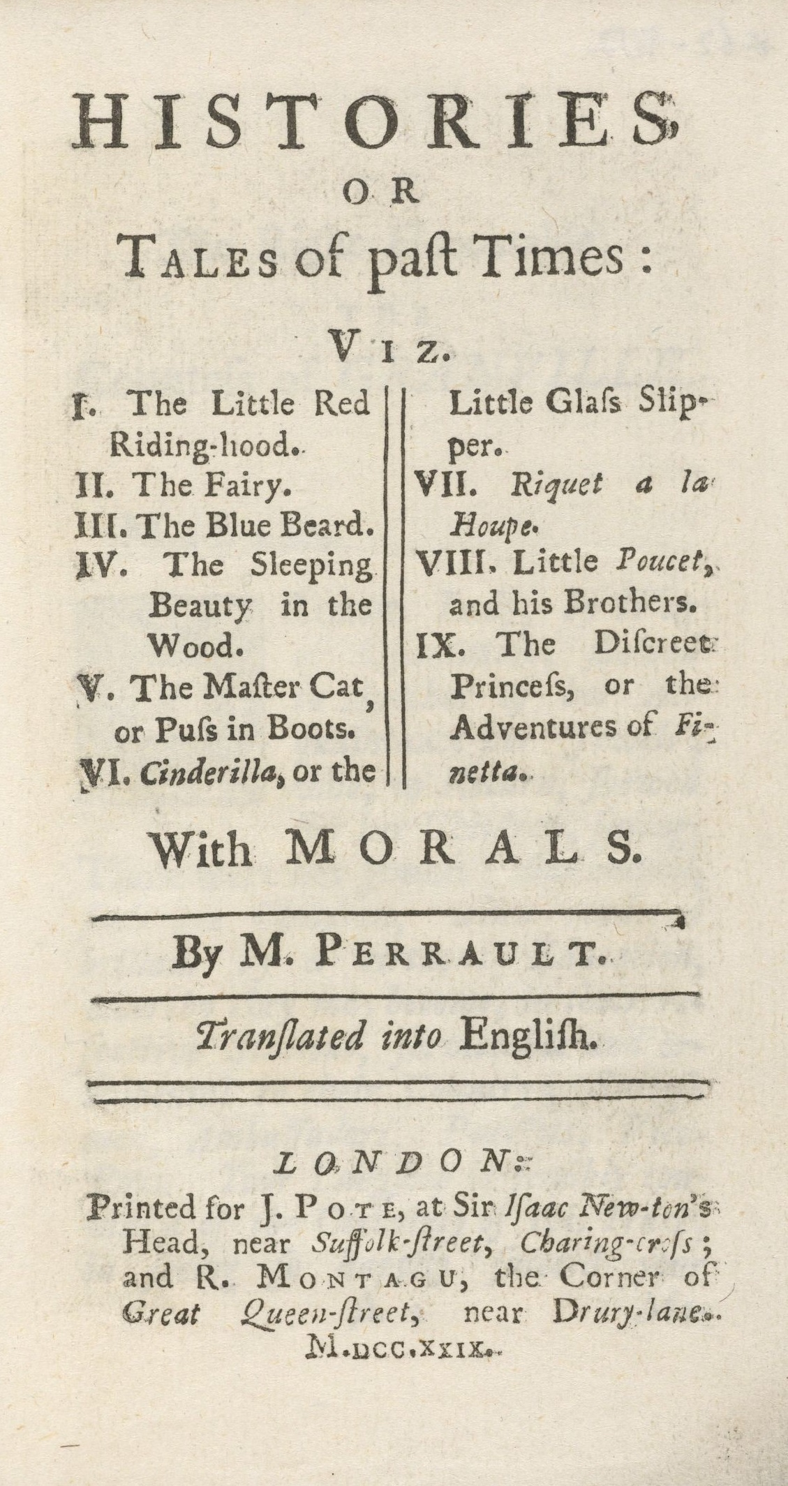 Title page: Histories, or tales of past times, London: 1729, by Charles Perrault (1628-1703). First known English translation of Perrault’s Contes des fées, better known as the tales of Mother Goose. From the only extant copy known. *FC6.P4262.Eg729s, Houghton Library, Harvard University